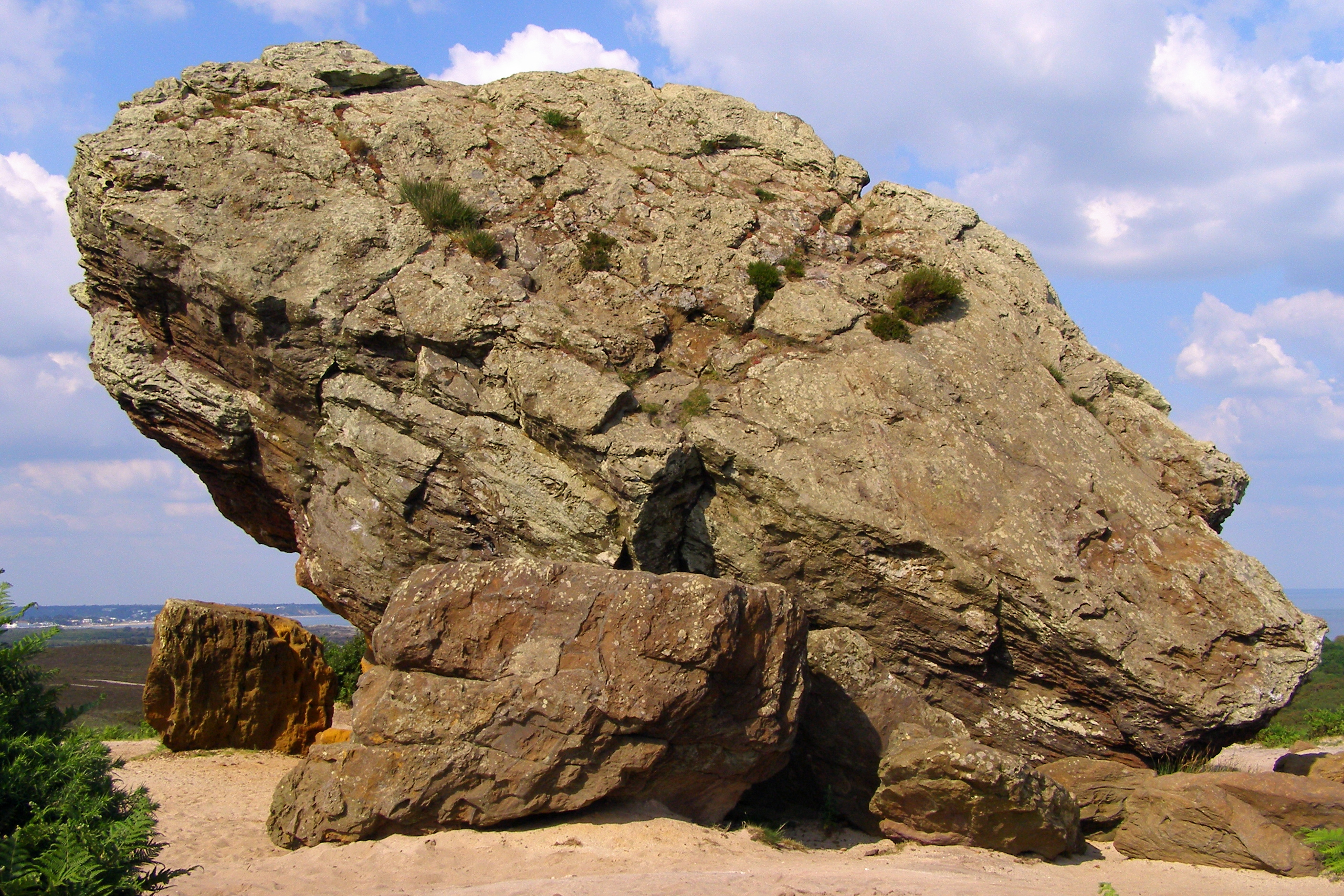 The Agglestone, near Studland, Dorset, U.K. Viewed from the south-west.